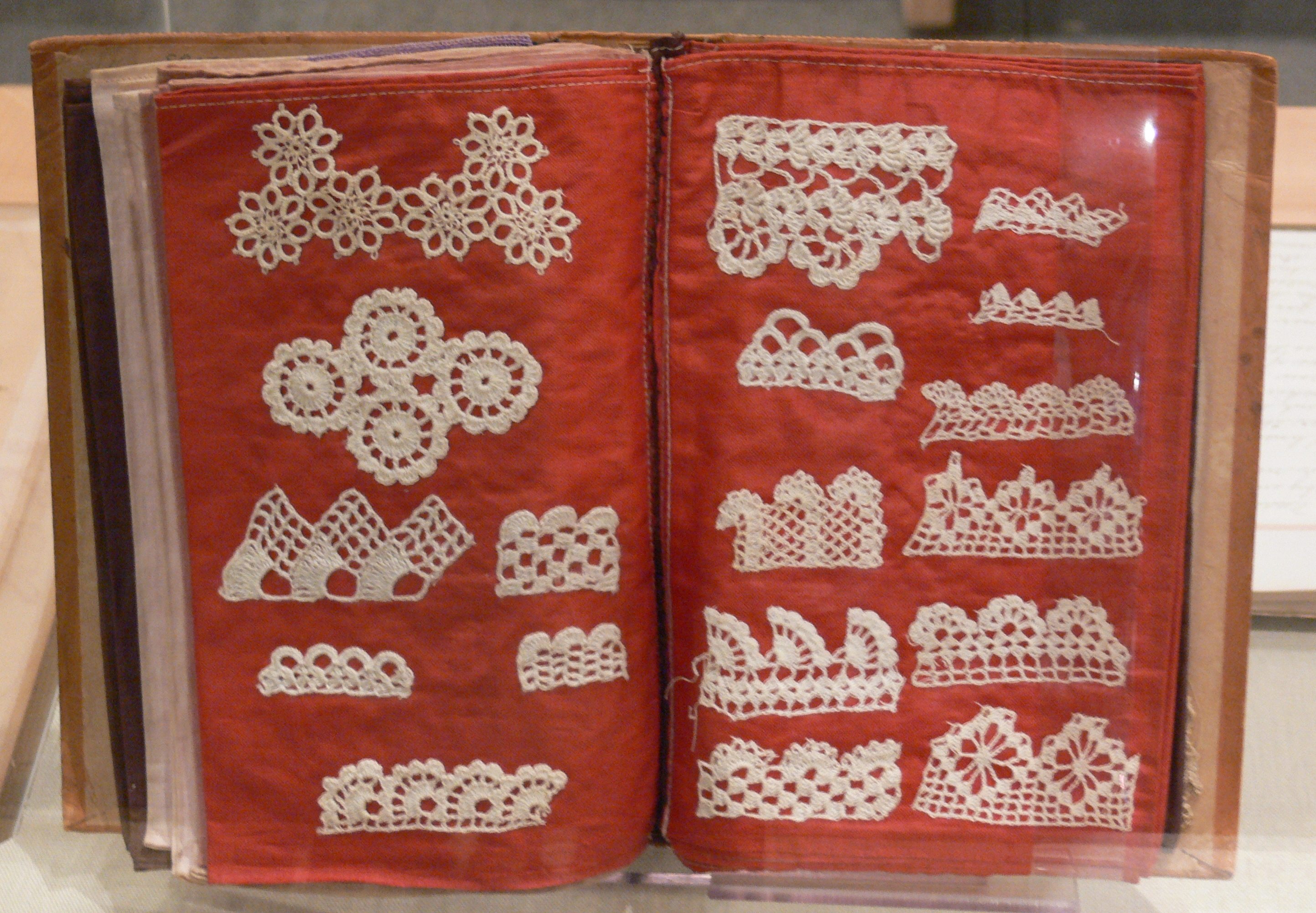 Sewing instruction manual and sample, designed by Sister Mary Loretta Gately, as used in Sisters of Providence schools in the Pacific Northwest, 1908-1917 The Women's Museum, Dallas, Texas (special exhibit Women & Spirit: Catholic Sisters in America, 2009–2010)